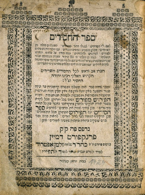 Sefer Hasidim, Frankfurt am Main, Tf "d edition (1724).